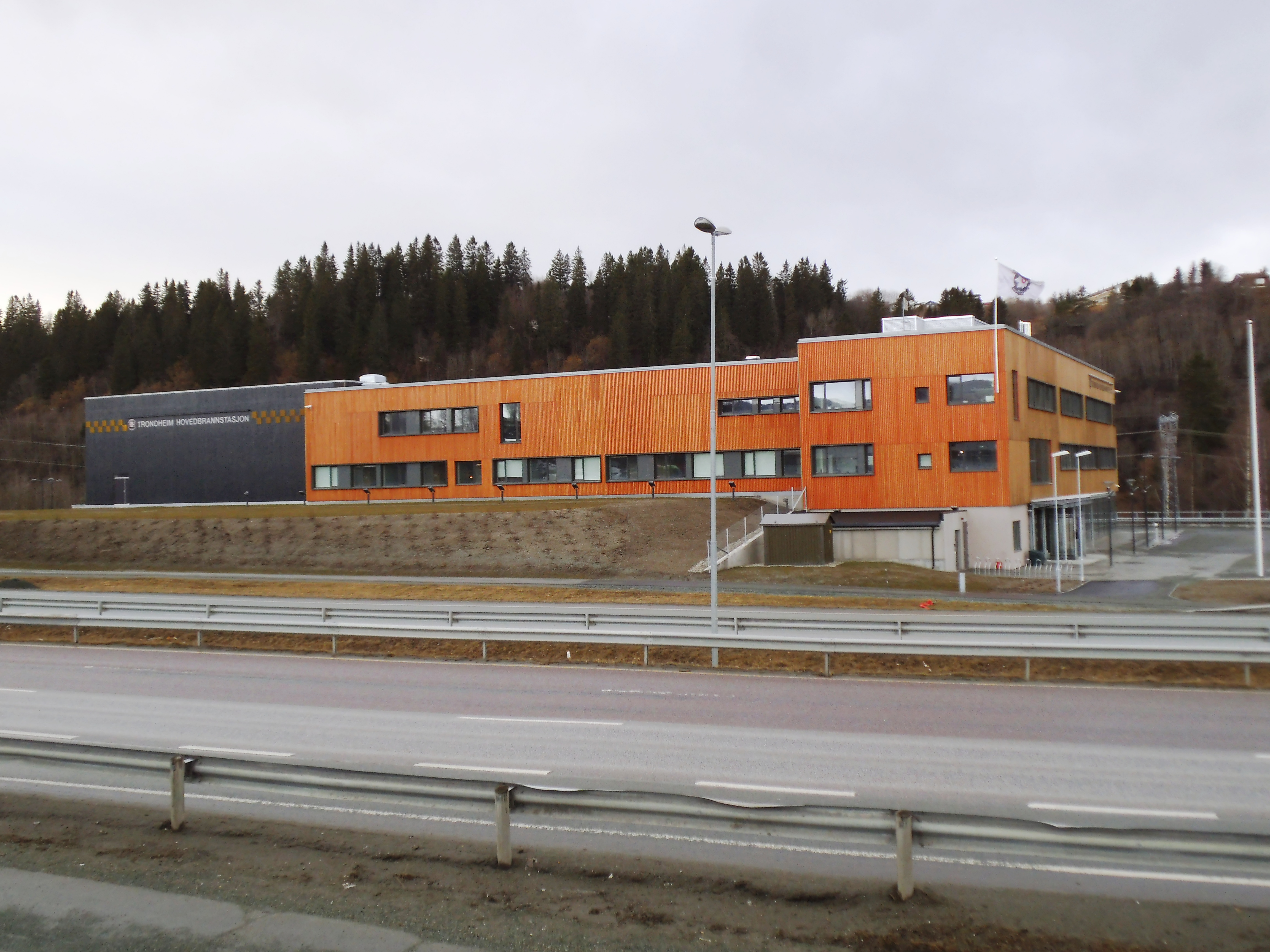 Den nye hovedbrannstasjonen i Trondheim (Åpnet i 2014). Den ligger inntil E6 ved Kroppan bru. Her sett fra E6.